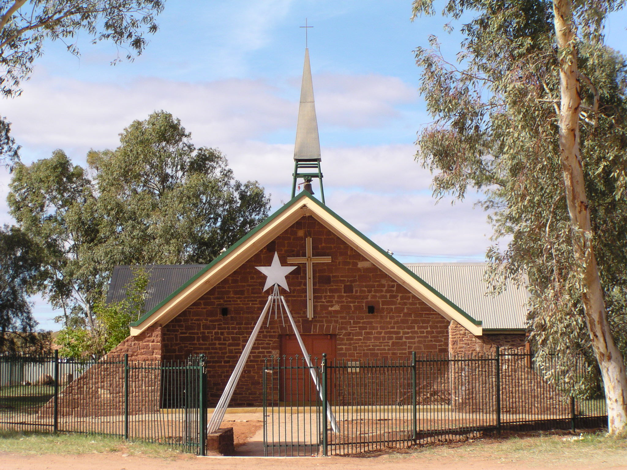 This is the current Lutheran church in Hermannsburg, built in 1964.